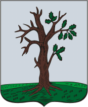 Starodub (Bryansk oblast), coat of arms (1782)